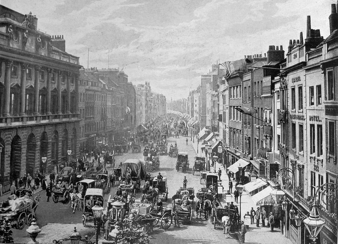 Traffic on the Strand, Westminster, London (late 19th century).